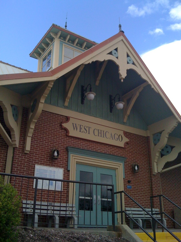 West Chicago train station, on Metra's Union Pacific/West line.